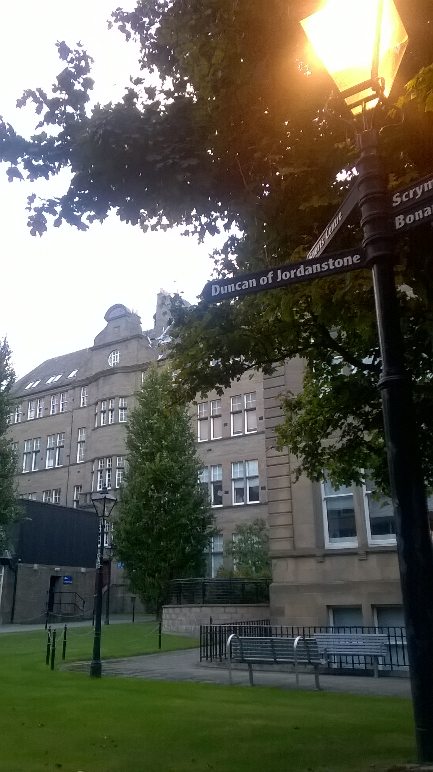 College Green in the city campus of the University of Dundee.